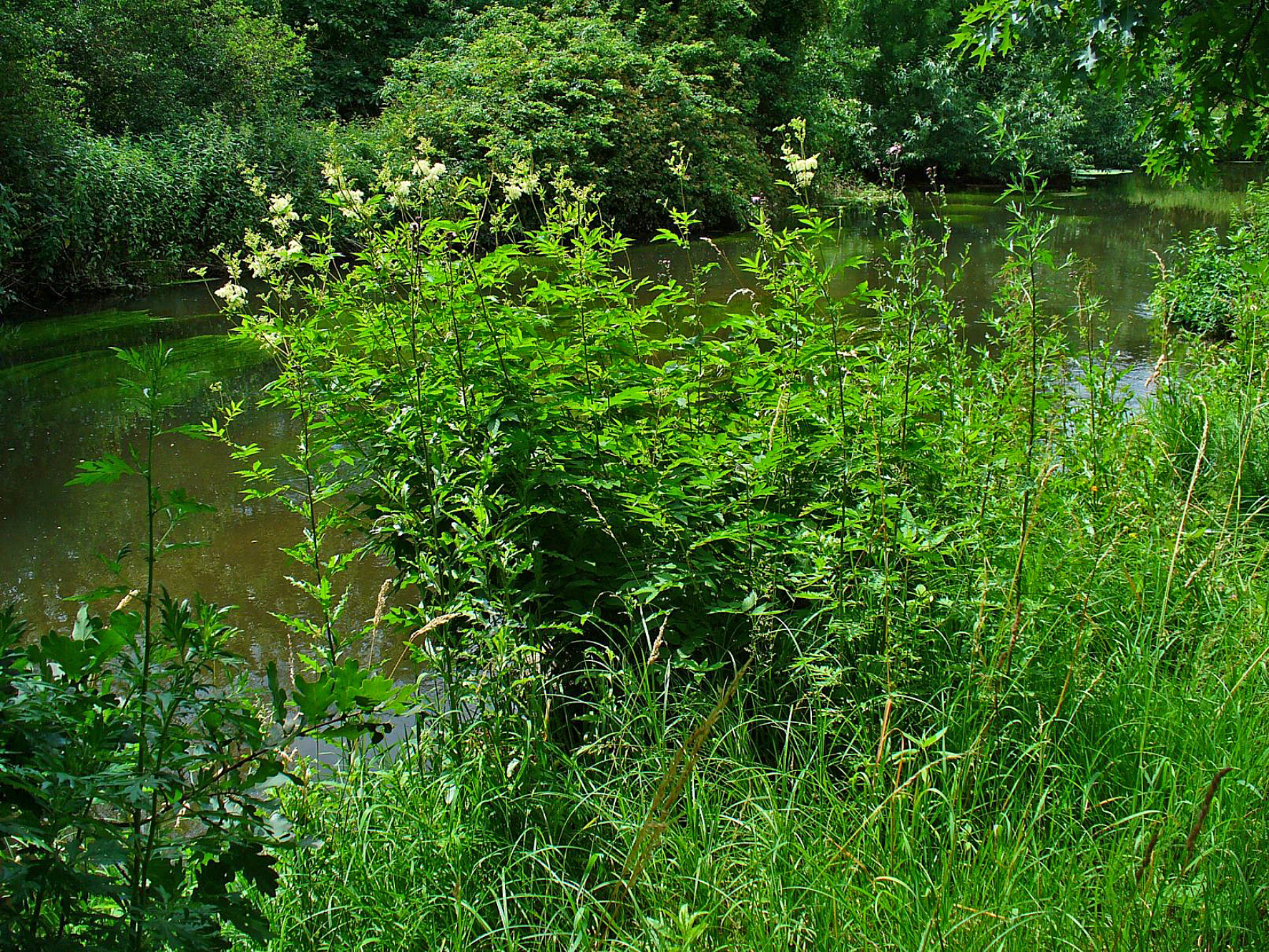 Filipendula ulmaria, Rosaceae, Meadowsweet, Queen of the Meadow, Pride of the Meadow, Meadow-Wort, Meadow Queen, Lady of the Meadow, Dollof, Meadsweet, Bridewort, habitus; Karlsruhe, Germany. The root is used in homeopathy as remedy: Spiraea ulmaria (Spirae.)